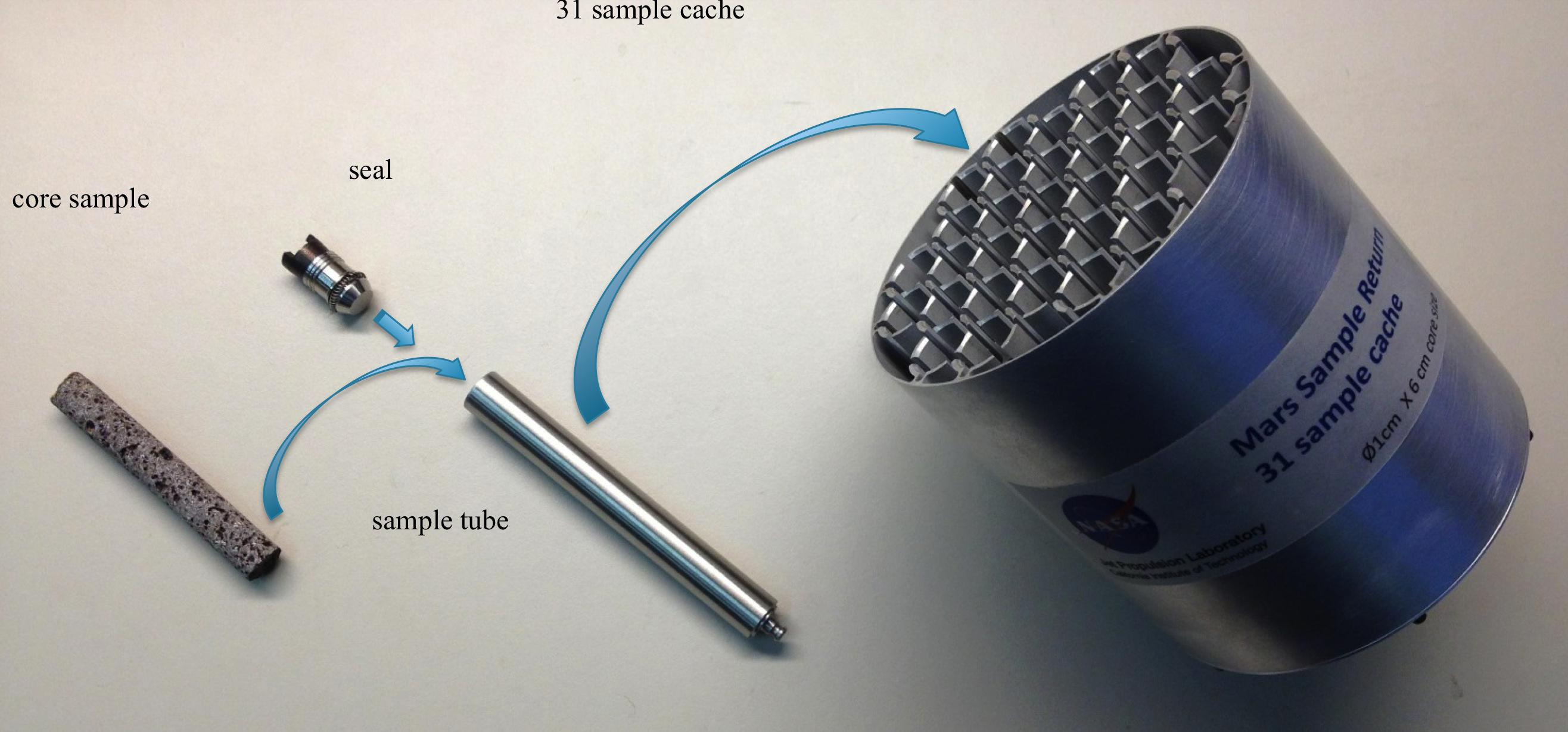 PIA17277: Creating a Returnable Cache of Martian Samples This shows one prototype for hardware to cache samples of cores drilled from Martian rocks for possible future return to Earth. A major objective for NASA's Mars 2020 rover, as described by the Mars 2020 Science Definition Team, would be to collect and package a carefully selected set of up to 31 samples in a cache that could be returned to Earth by a later mission. The capabilities of laboratories on Earth for detailed examination of cores drilled from Martian rocks would far exceed the capabilities of any set of instruments that could feasibly be flown to Mars. The exact hardware design for the 2020 mission is yet to be determined. For scale, the diameter of the core sample shown in the image is 0.4 inch (1 centimeter). Mars 2020 is a mission concept that NASA announced in late 2012 to re-use the basic engineering of Mars Science Laboratory to send a different rover to Mars, with new objectives and instruments, launching in 2020. NASA's Jet Propulsion Laboratory, a division of the California Institute of Technology, Pasadena, manages NASA's Mars Exploration Program for the NASA Science Mission Directorate, Washington.